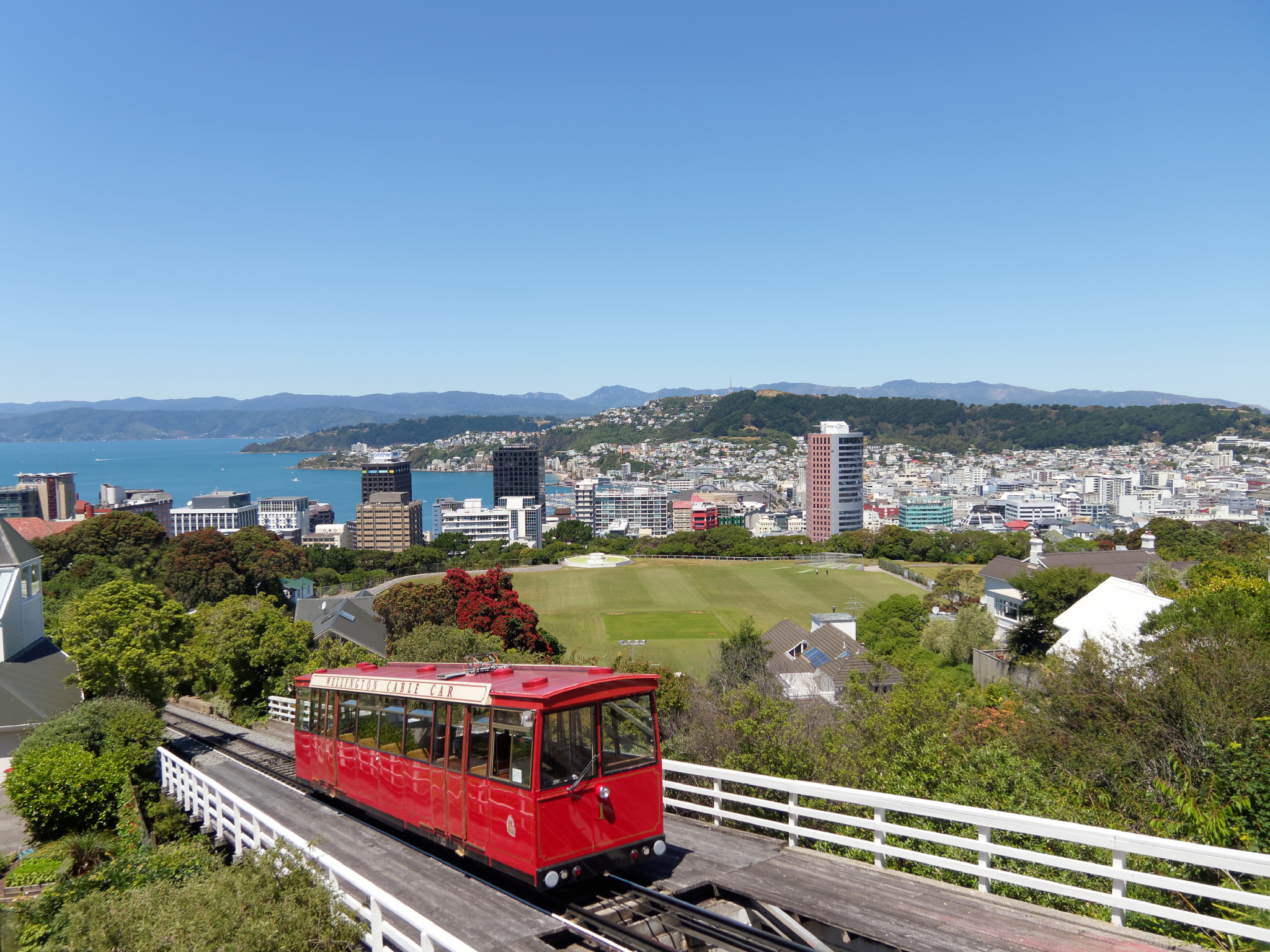 Wellington city with Cable Car